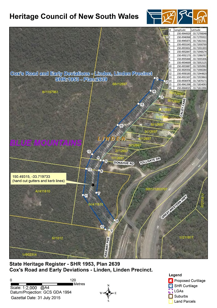 Cox's Road and Early Deviations - Linden, Linden Precinct: SHR Plan No 2639: Curtilage or boundary for Cox's Road and Early Deviations: Linden, Linden Precinct - State Heritage Register listing - satellite view